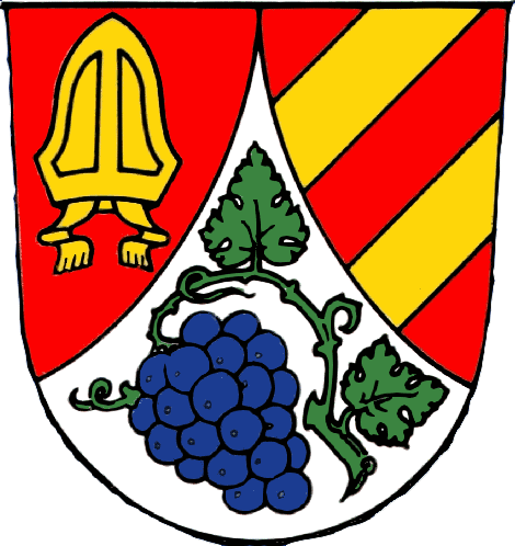 Coat of Arms of Ramsthal